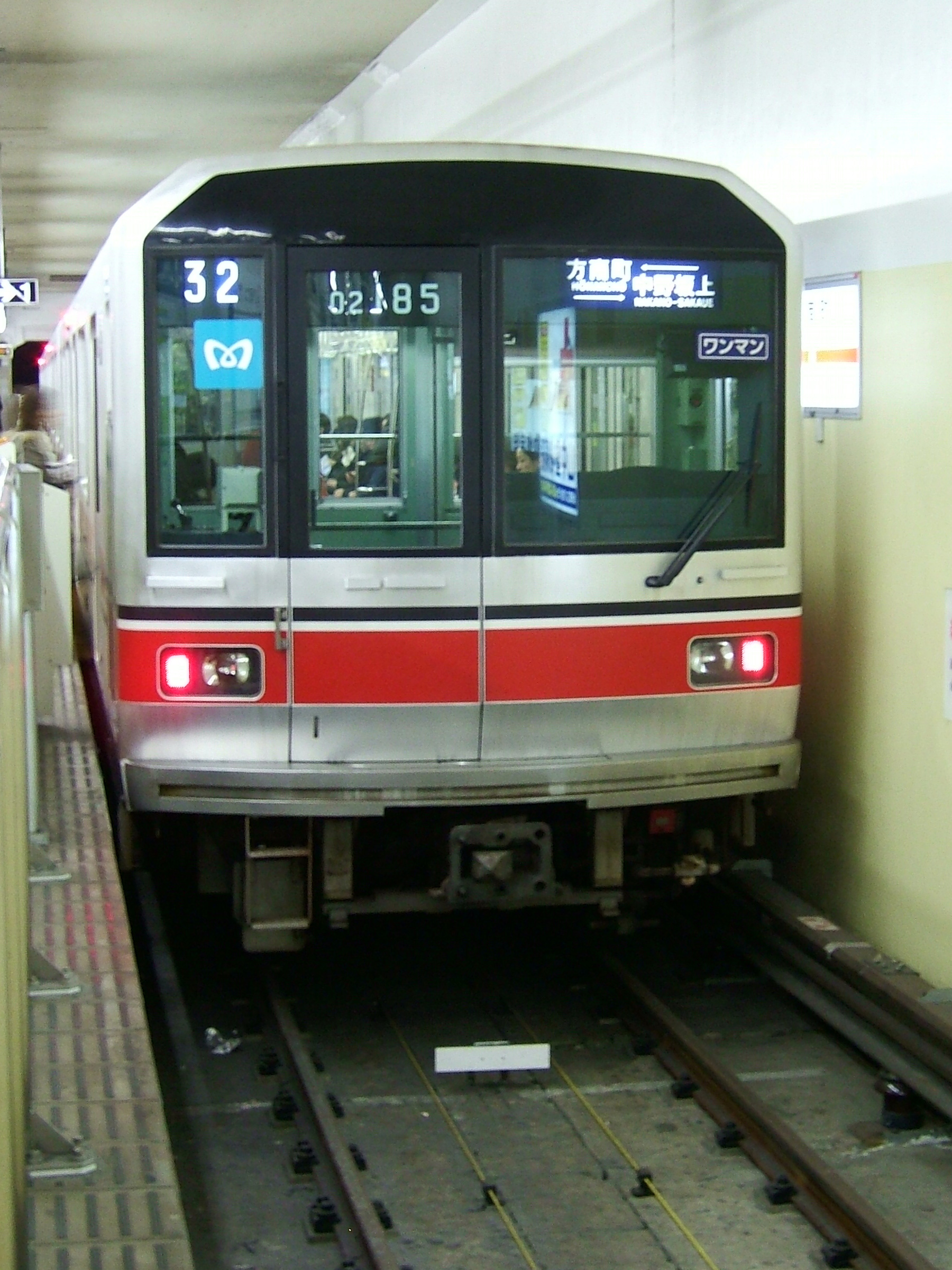 Teito Rapid Transit Authority series 02 for Tokyo Metro Marunouchi Line (Hounancho branch)